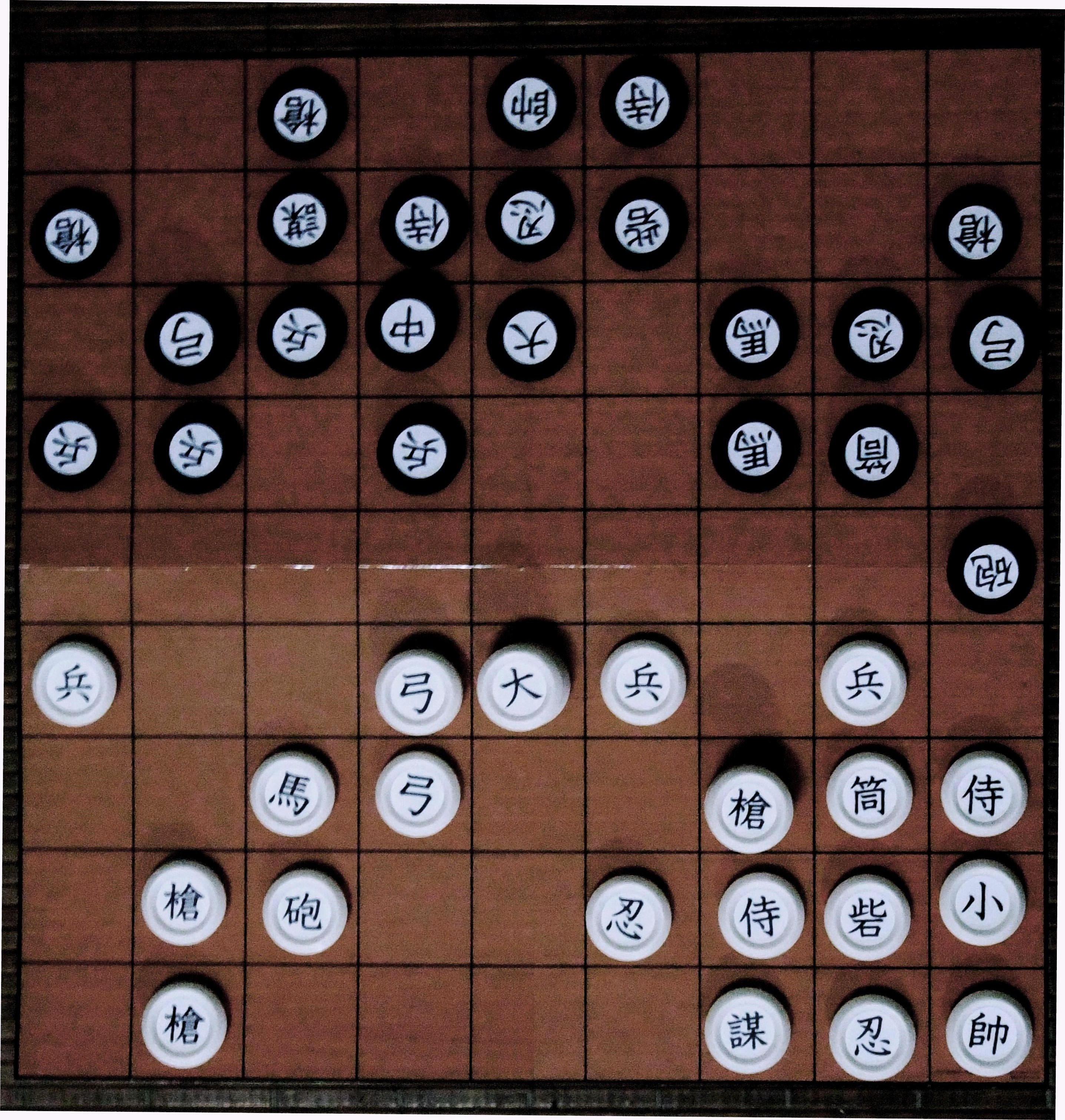 Gungi